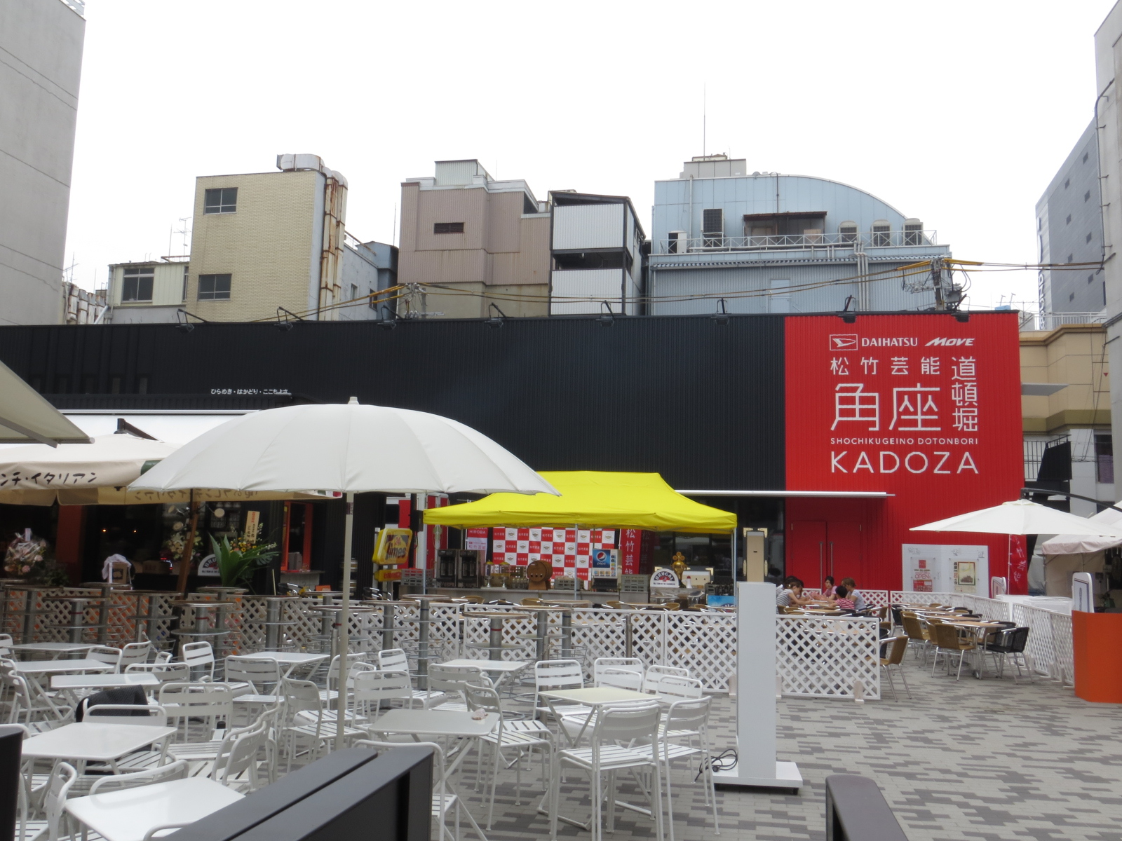 Dōtonbori Kadoza, Theater. Chūō-ku, Osaka.